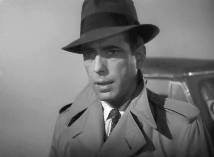 This screenshot shows Humphrey Bogart in a trenchcoat and fedora in the airport scene.